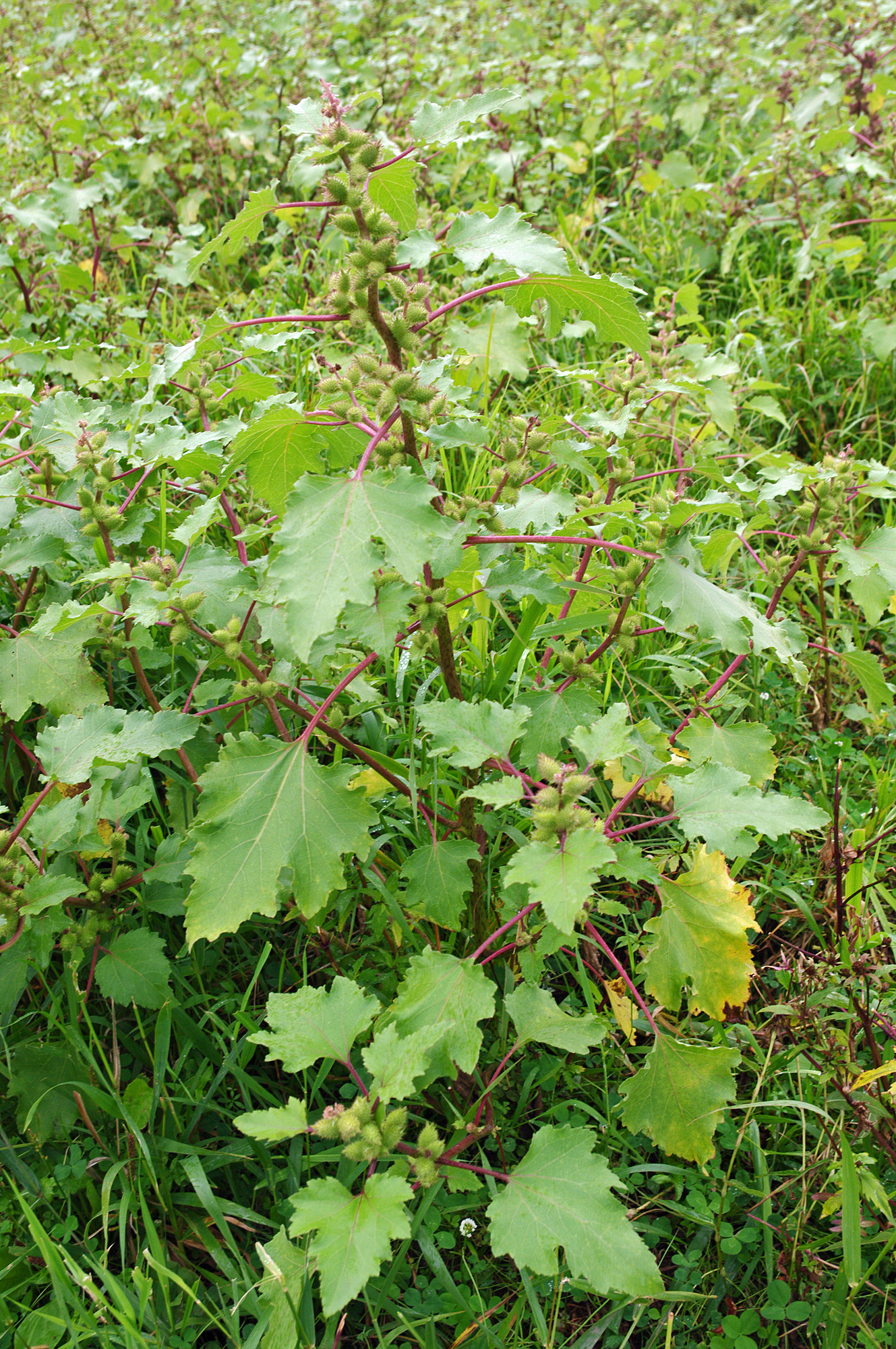 Xanthium albinum ssp. albinum. Plants growing near the river banks of the Elbe.